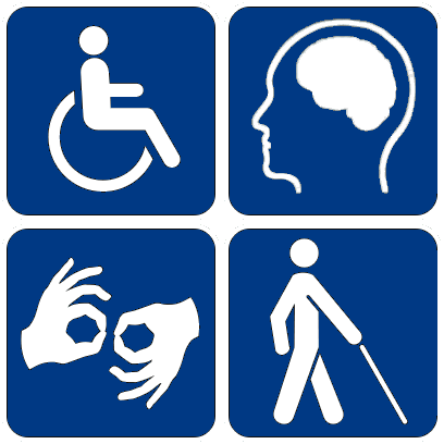 A collection of pictograms. Three of them used by the United States National Park Service. A package containing those three and all NPS symbols is available at the Open Icon Library